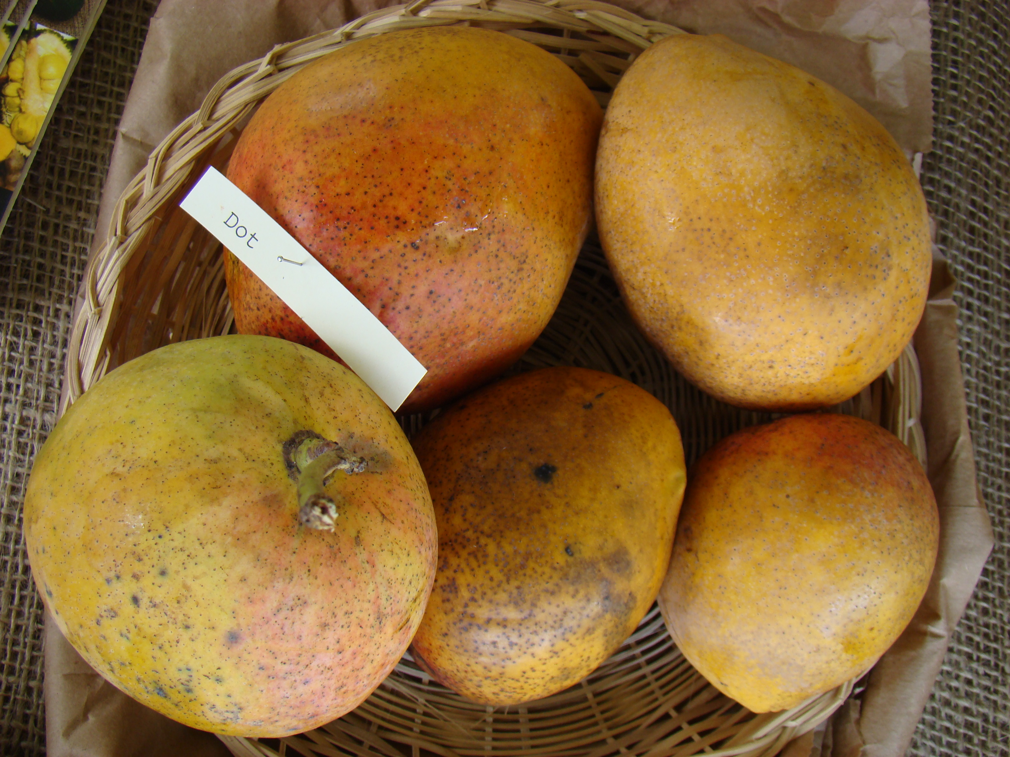 This is a photo of the display of Dot mango at the Redland Summer Fruit Festival, Fruit & Spice Park, Homestead, Florida.